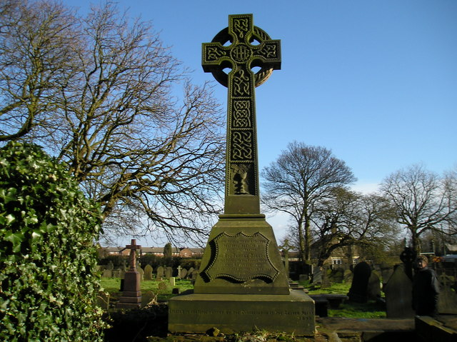 The Sacred Heart Memorial Cross This is erected in the grounds of the ancient Windleshaw Chantry, dedicated to the memory of Clergy from Sacred Heart Church, St. Helens.